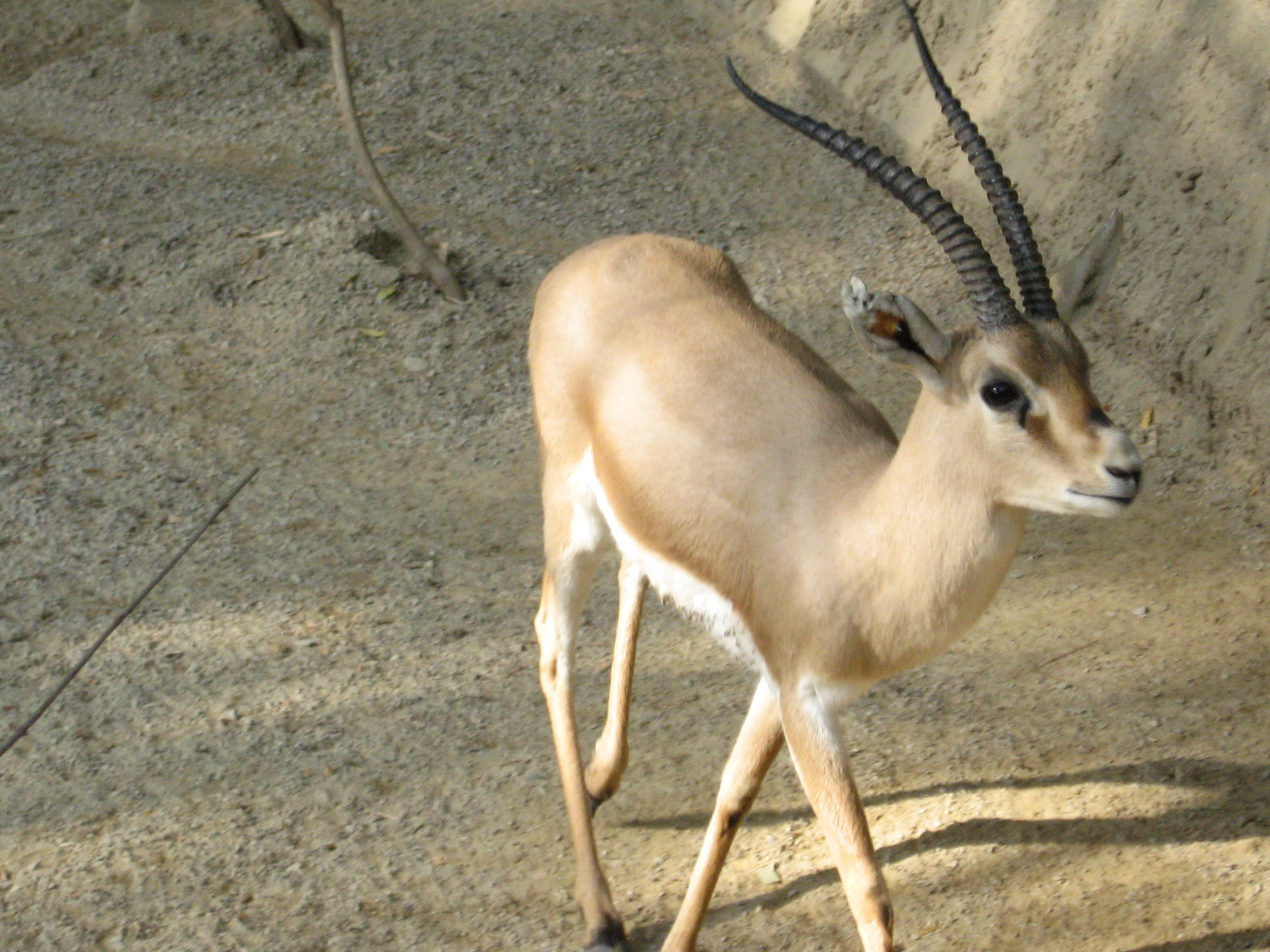 Slender-horned gazelle, at the Cincinnati Zoo